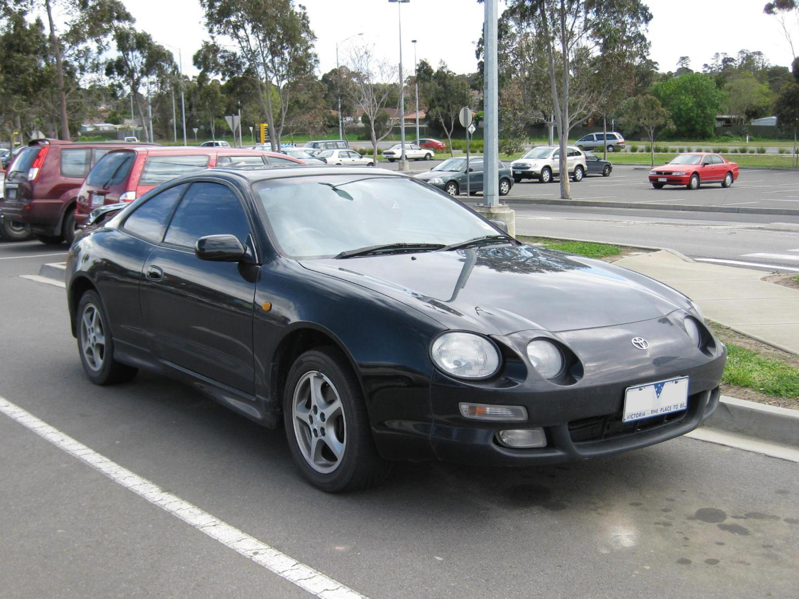 1996 Toyota Celica 2.2 ZR Liftback (ST204R-BLMSKQ) shown in Black (colour code 202), photographed in Melbourne, Australia.